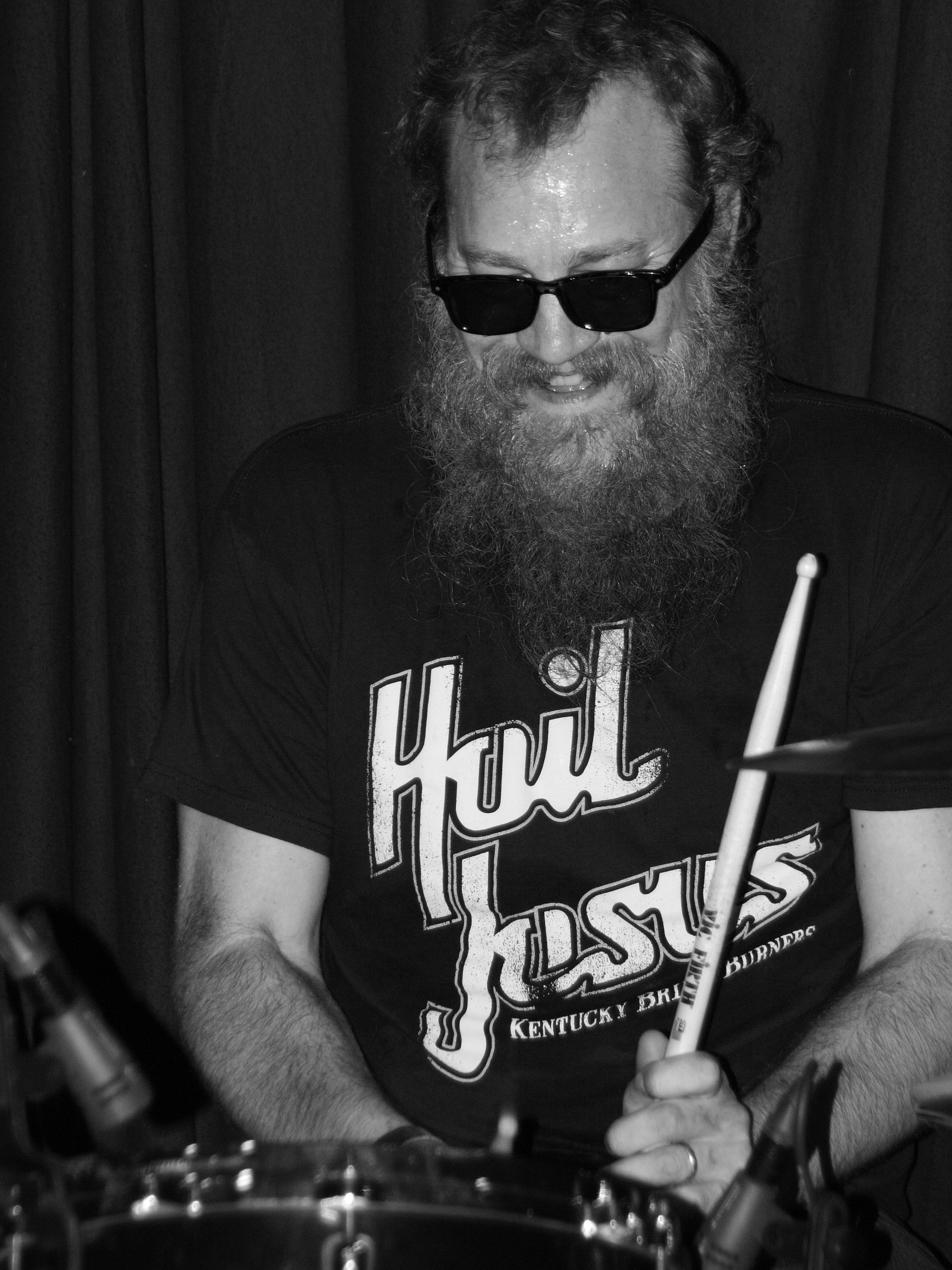 The Kentucky BridgeBurner with Blaine Cartwright, Earl Crim, Rob Hulsman & Todd Gorrell at Club W71, Weikersheim.